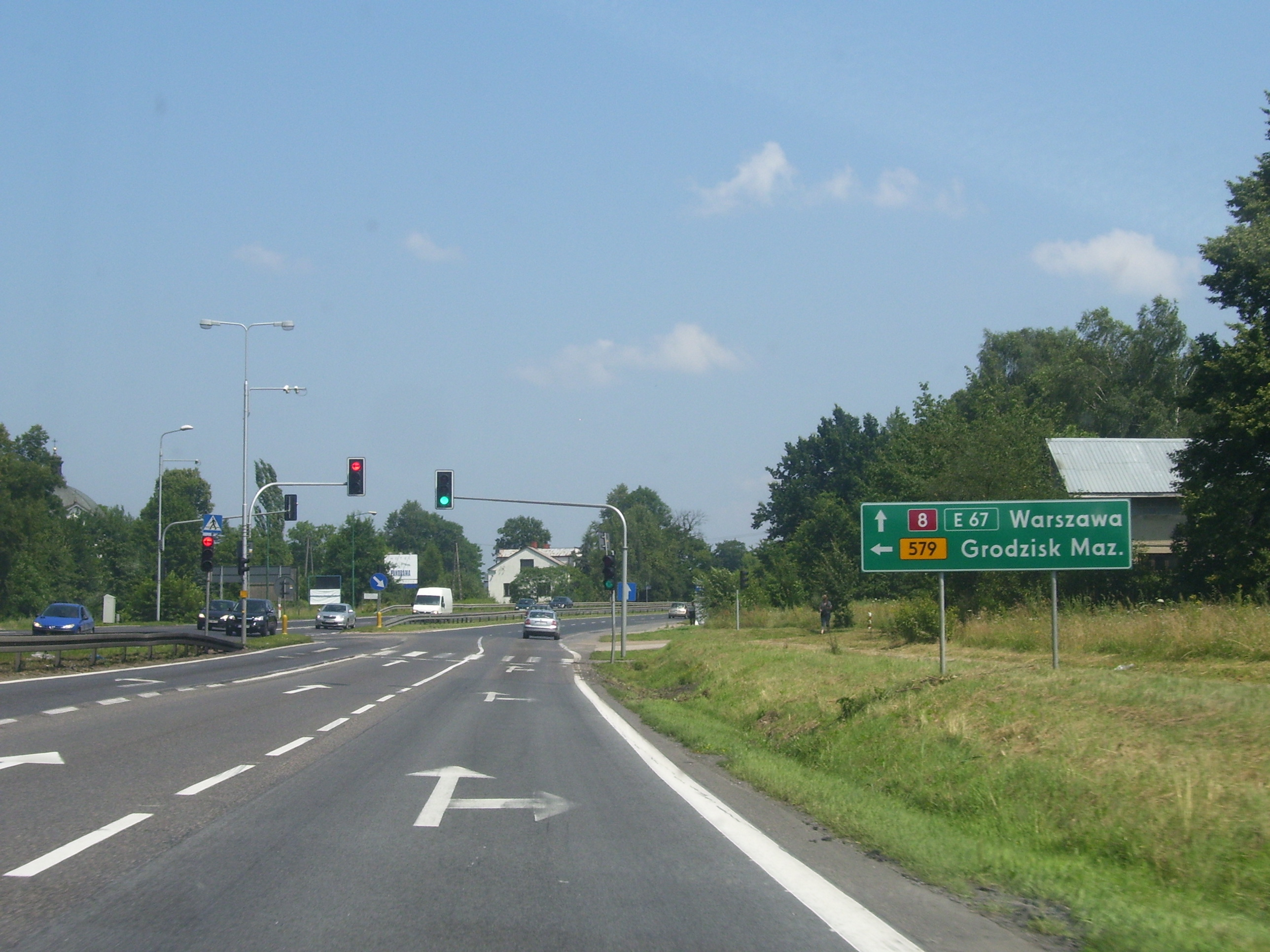 DK8 (Poland)